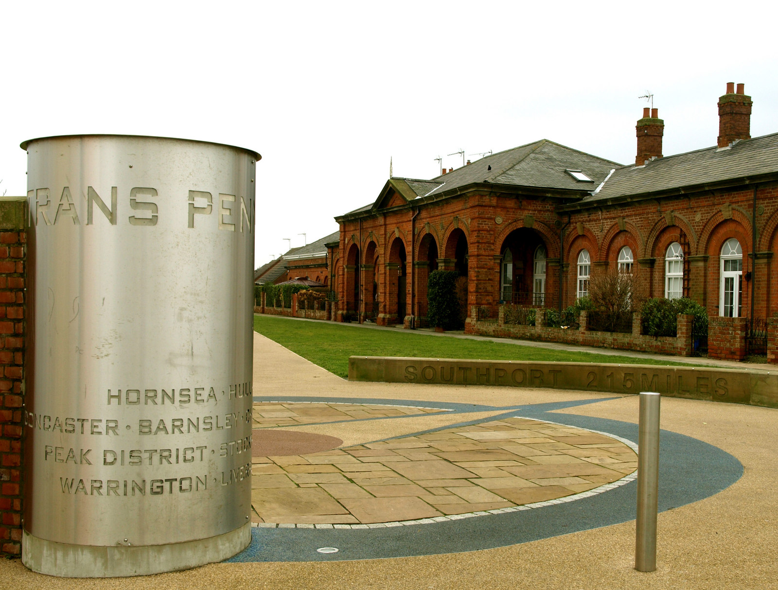 The Trans Pennine Trail Start/End near the former Railway Station, Hornsea, East Riding of Yorkshire, England.This is the eastern end of the Pennine Trail.